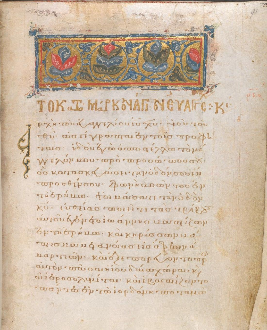 Folio 91 - the first page of Mark